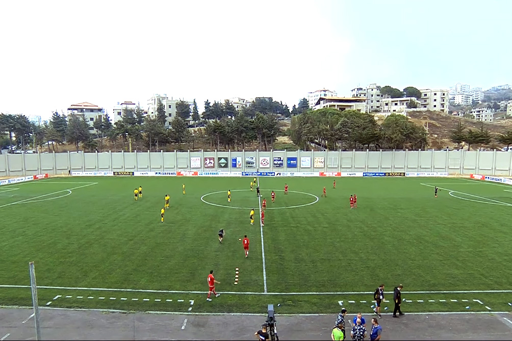 Amin AbdelNour Stadium during the 2019-20 Lebanese Premier League game between Ahed and Akhaa Ahli Aley